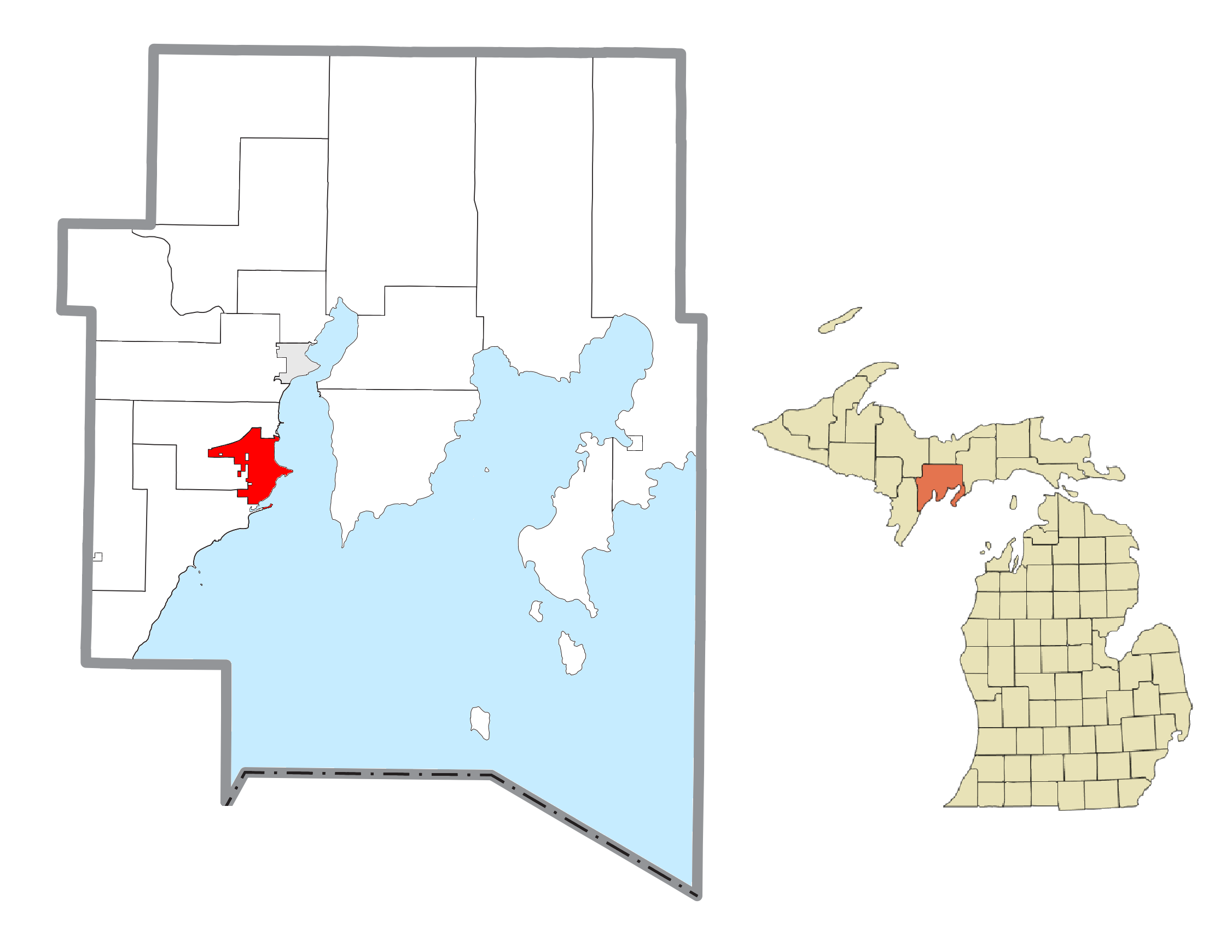 Escanaba, MI